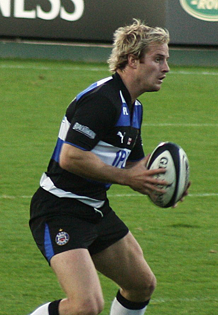 English rugby union player Nick Abendanon playing for Leicester Tigers away to Bath Rugby in the 2009 Guinness Premiership.